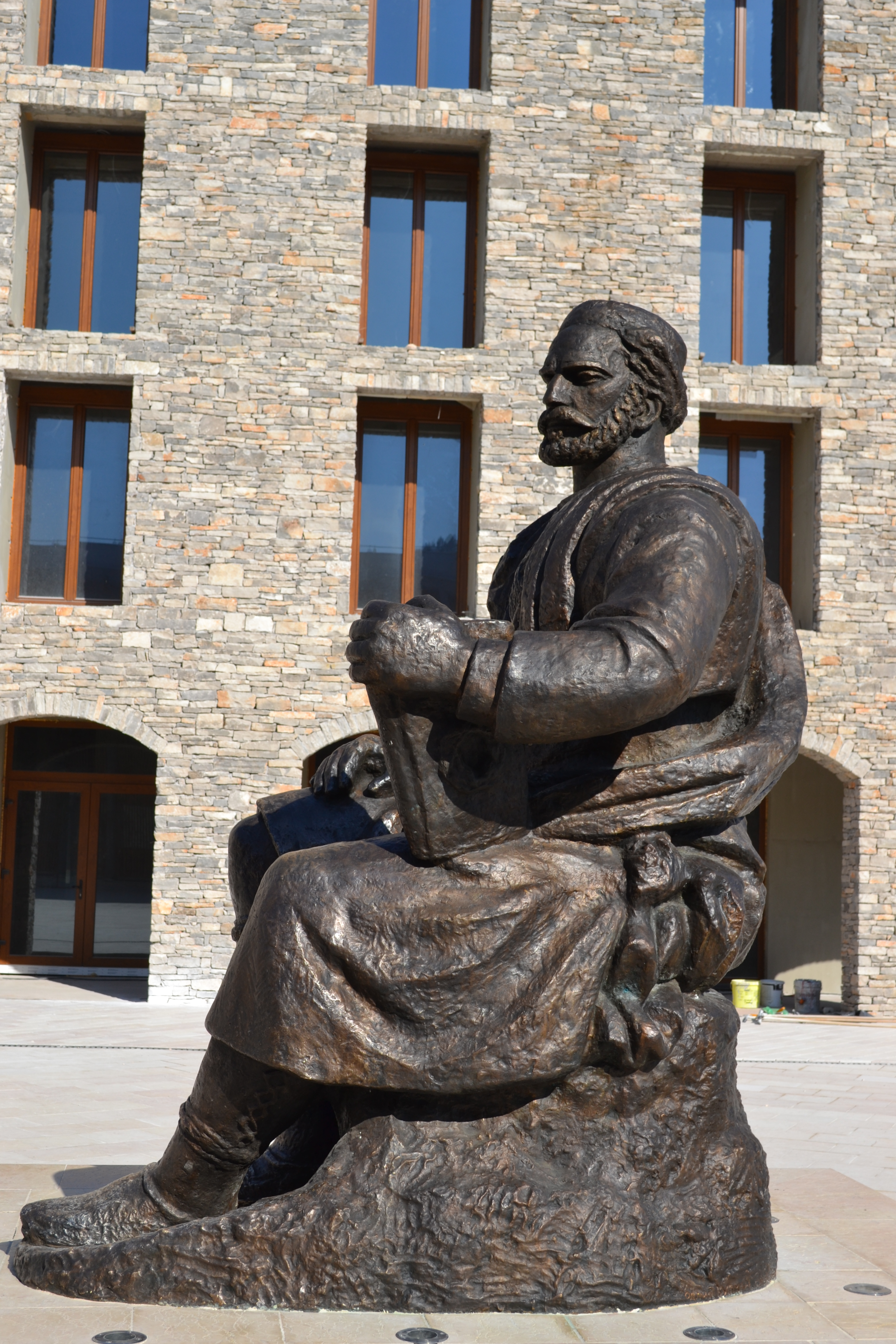 Monument to Petar II Petrovic Njegos, located in Andricgrad, Visegrad, Bosnia and Herzegovina Српски (ћирилица): Споменик Петру Другом Петровићу Његошу, Андрићград